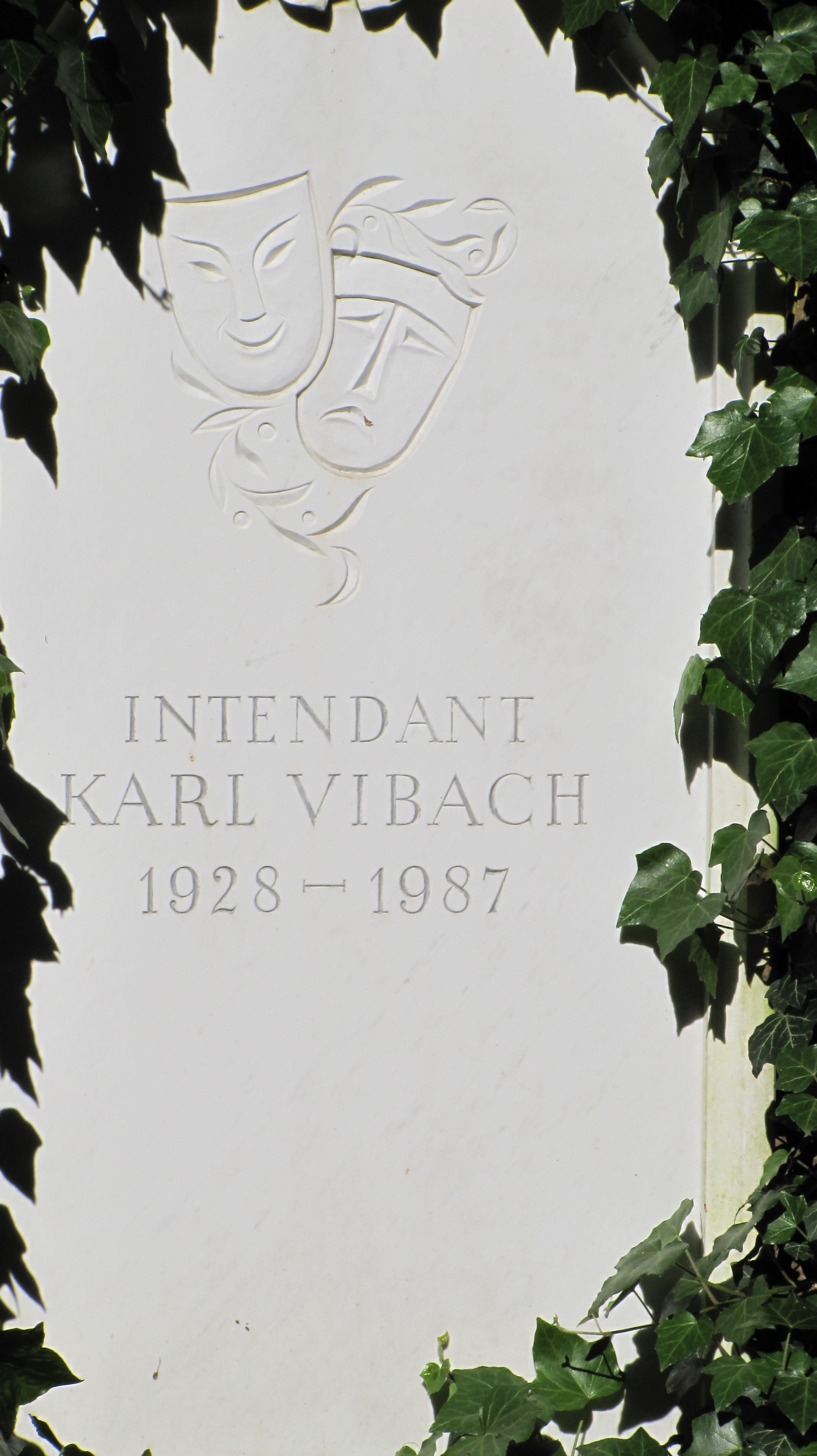 Grave stone of Karl Vibach, Burgtorfriedhof, Lübeck